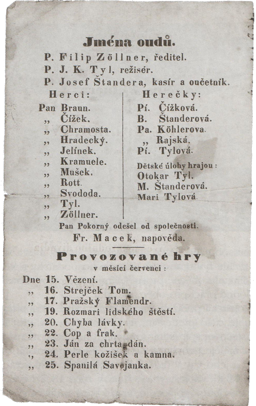 Filip Zöllner's travelling actors group in Mladá Boleslav, July 1854